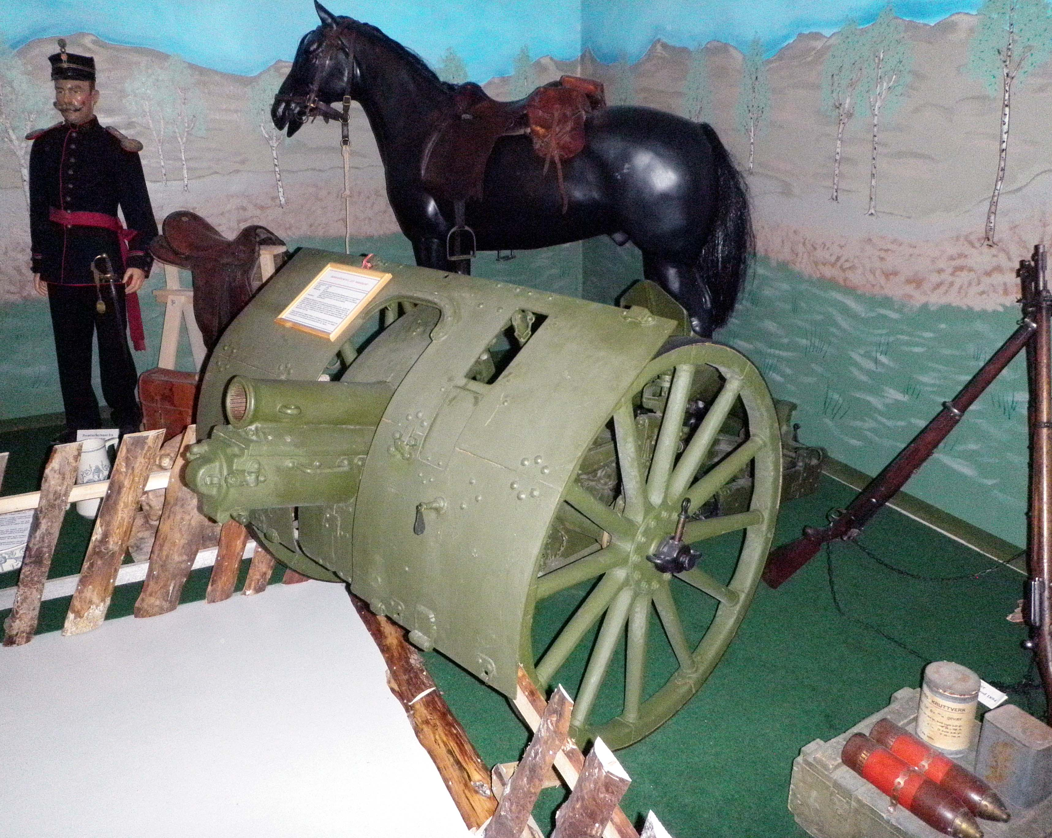 A 7.5 cm Gebirgskanone Model 1911 mountain gun on display at Troms Forsvarsmuseum (Troms Armed Forces Museum) in Setermoen, Troms, Norway.